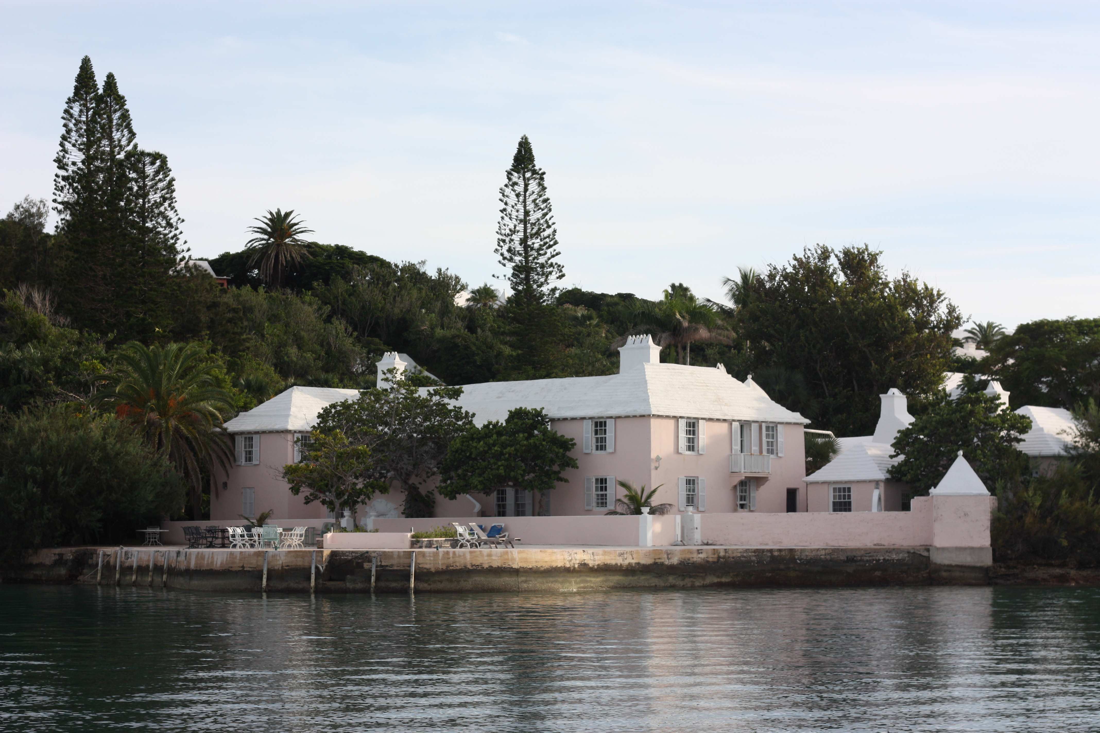 "Spithead", in Warwick, Bermuda, was the 18th Century home of Bermudian merchant and privateer Hezekiah Frith, and in the 20th Century was the home of Eugene O'Neill and his family, passing after his death, to his Bermudian-born daughter, Oona Chaplin, with a large surrounding estate, subsequently called the Chaplin Estate.